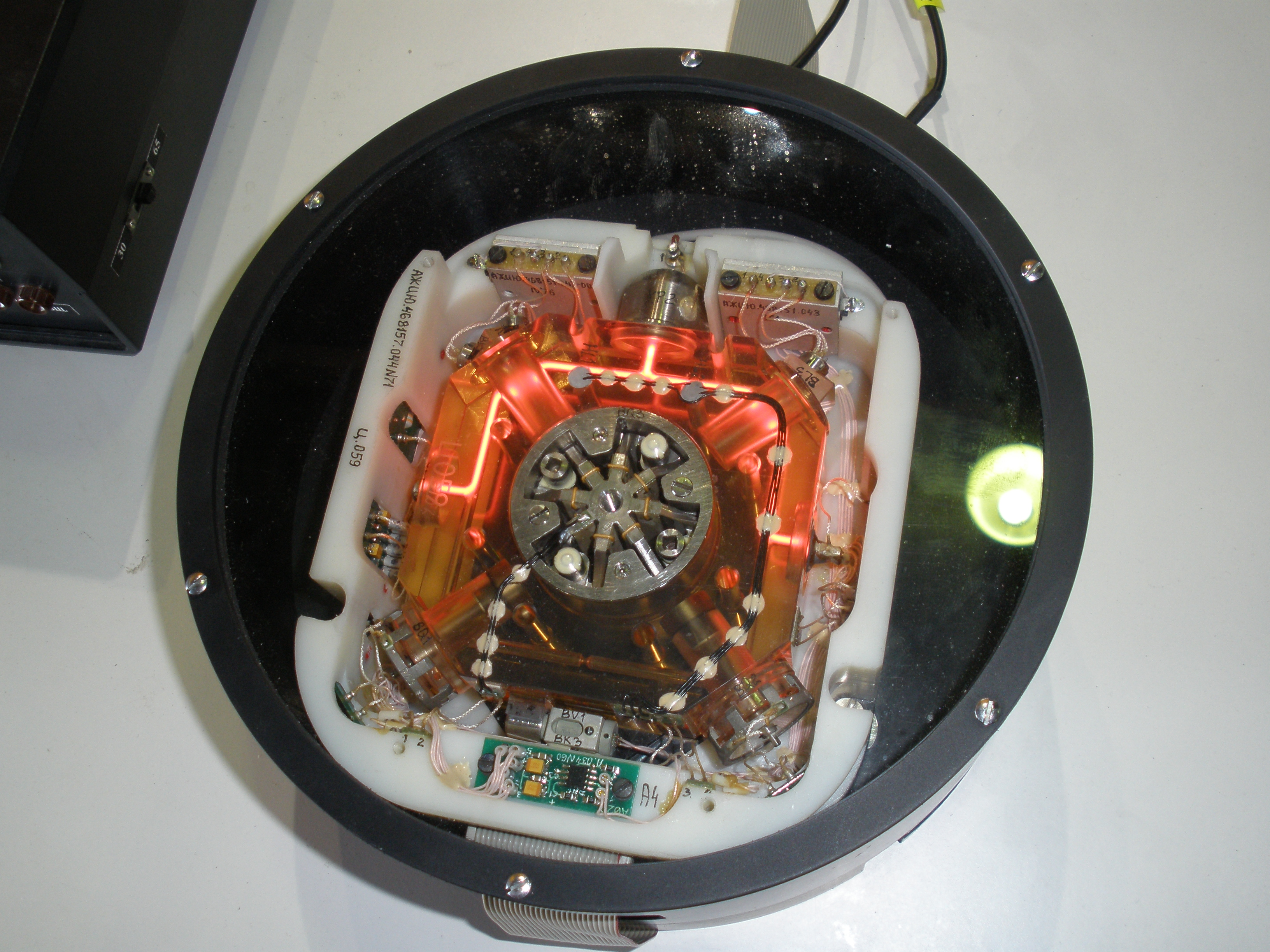 Ring laser gyroscope produced by Ukrainian "Arsenal" factory on display at MAKS-2011 airshow